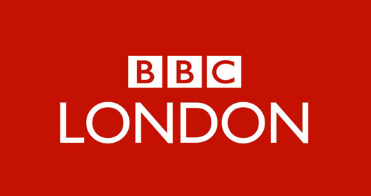 I have been on BBC for long time